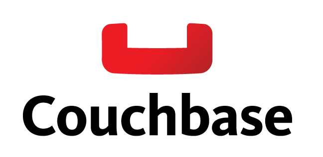 The Couchbase, Inc. company logo. Plan is to use this in an update to the Couchbase page.